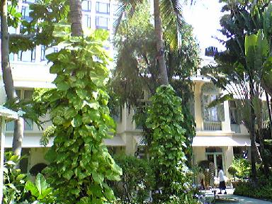 The Oriental Bangkok, Authors Wing